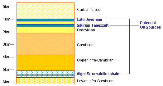 Hypothetical cross-section of the Taoudeni basin in the Sahara